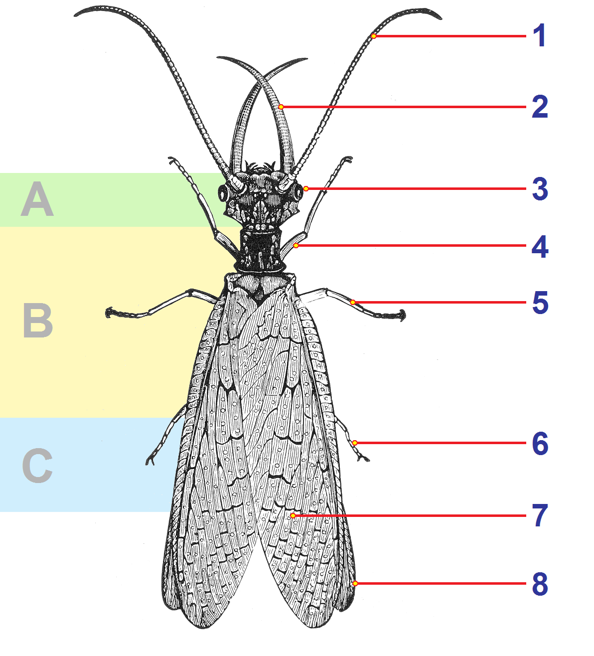 Illustration of a dobsonfly. The original caption read:Fig. 511.--Corydalus cornutus, hellgrammite, male. (From Riley.)